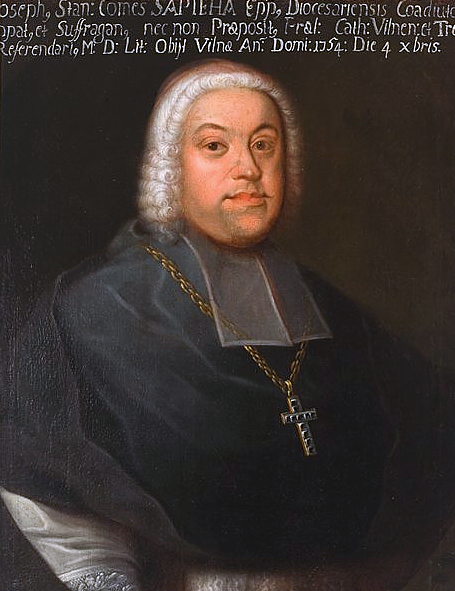 Józef Stanisław Sapieha